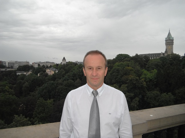 Dragan Djokanovic in Luxembourg